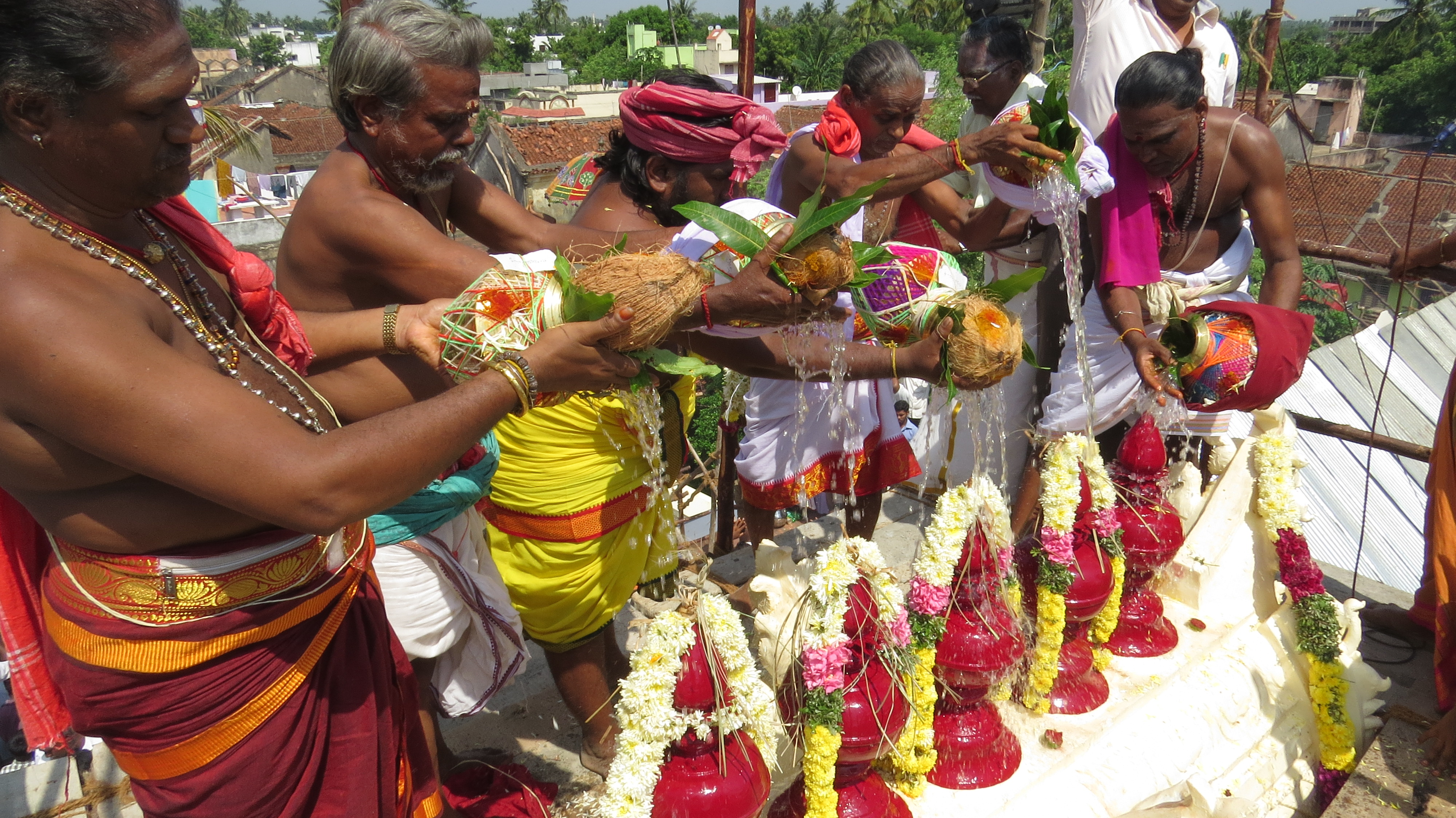 Sri Pathirakaali Amman, Lord Veerabhadra Swamy Temple